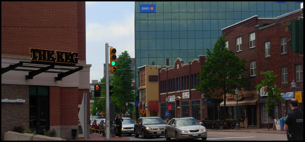 The Keg in Moncton